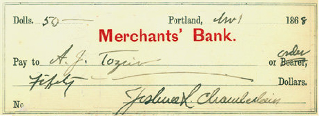 Check for $50 from Joshua Chamberlain to Andrew Tozier, 1868.